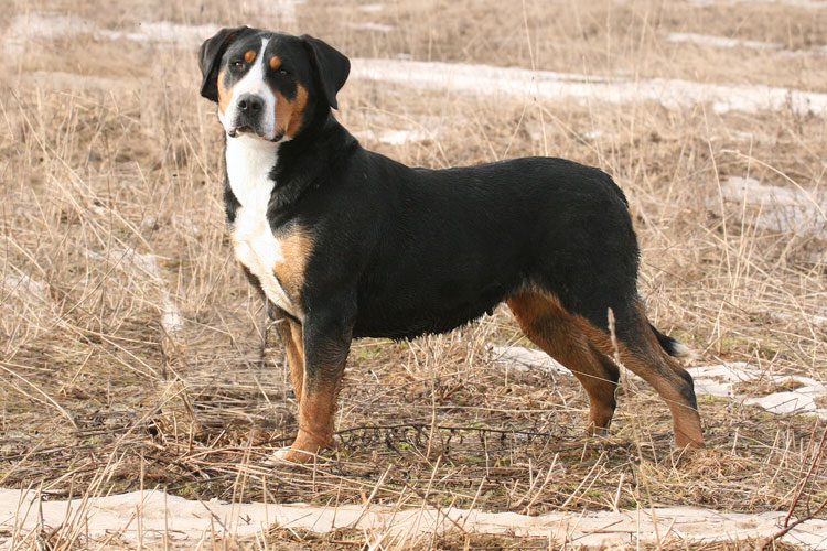 Greater Swiss Mountain Dog, owner: kennel Shulvi Rosan